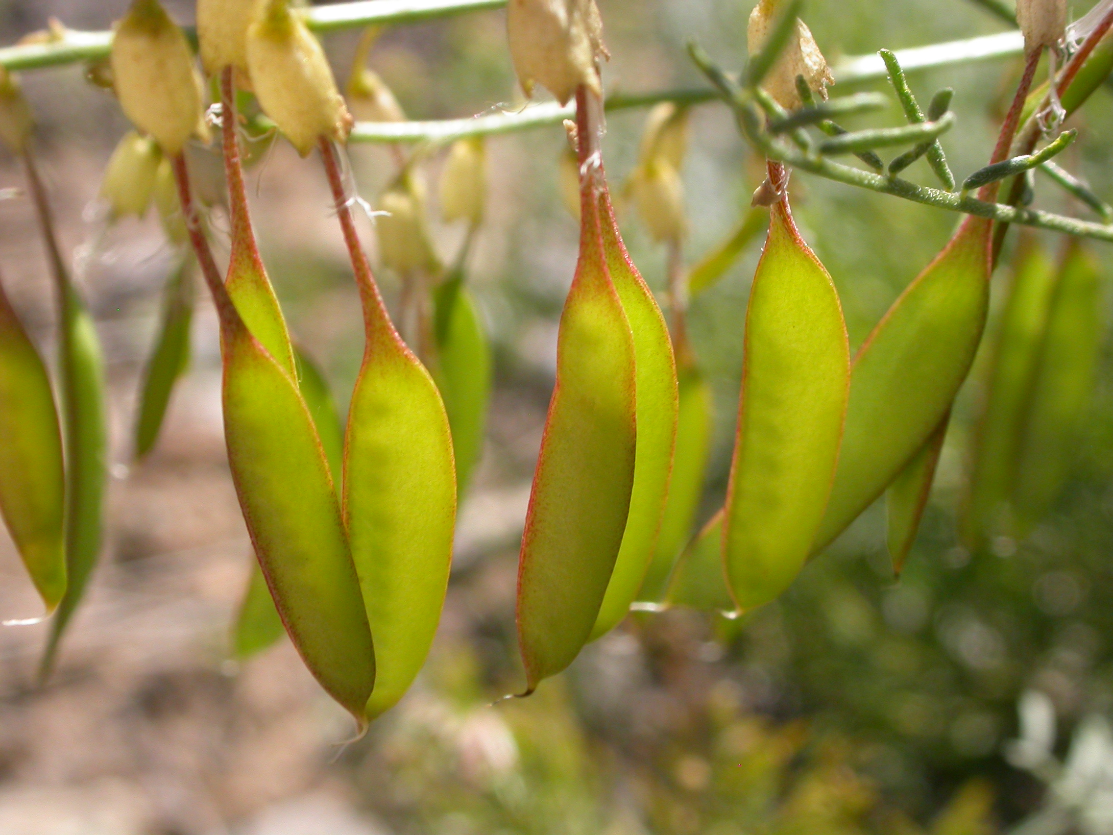 The pendant stipitate fruits are characteristic of basal milkvetch.